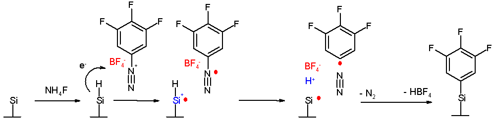 Diazonium Salt Application Silicon Wafer.